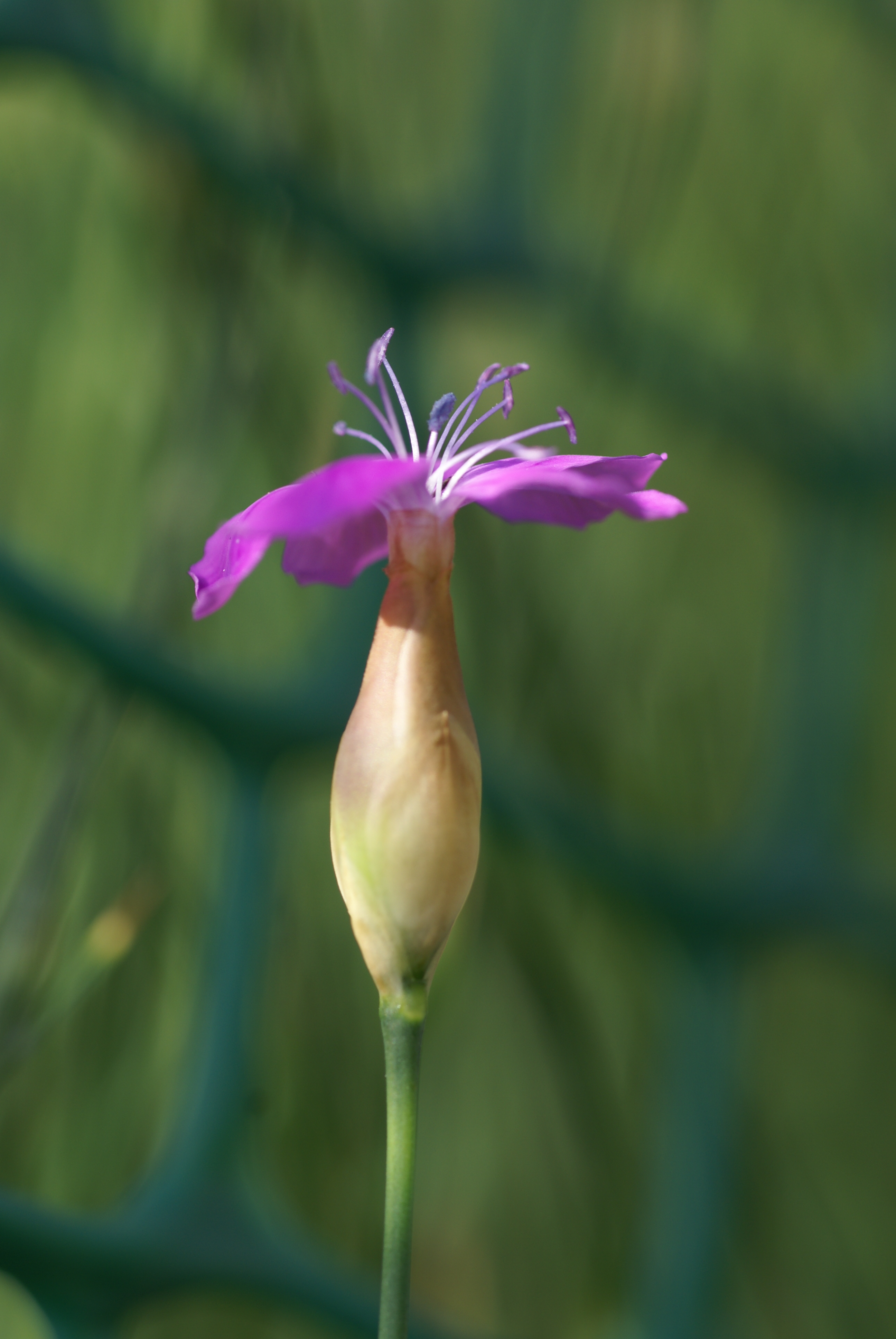 Plant species Petrorhagia obcordata in the botanical garden Bergianska trädgården in Stockholm, Sweden.